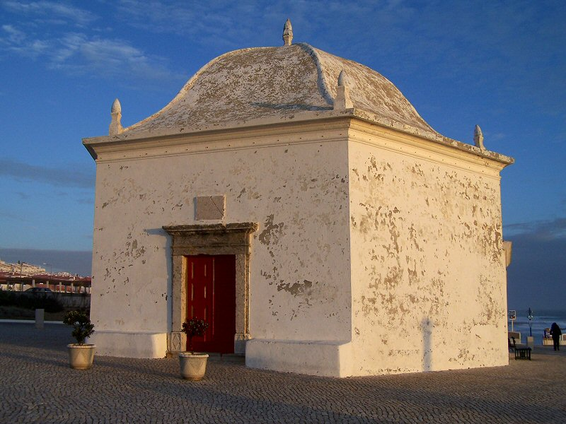 São Sebastião Hermitage, in Ericeira, near Sintra. The Ericeira is a situated tourist village the 35 km the northwest of the center of Lisbon, the 18 km of Sintra and the 8 km of Mafra.